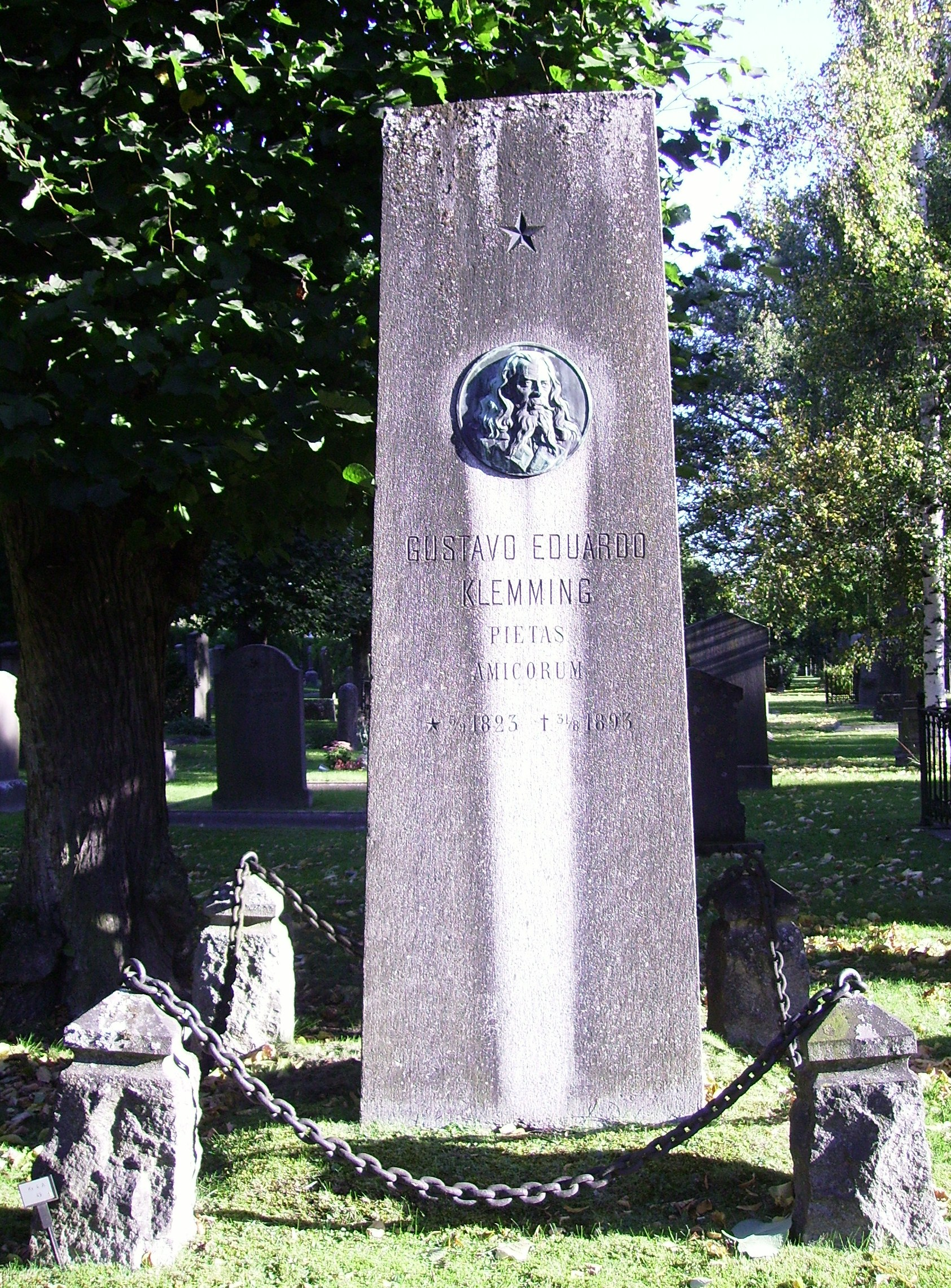 Picture of Gustaf Klemming's grave at Norra begravningsplatsen in Solna